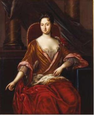 Portrait of Sofia Lovisa von Ascheberg (1664-1720), wife of Hans Wachtmeister